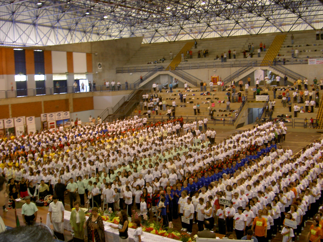 Presentation of Liangong in 18 Forms practicing groups in the III National Encounter of Liangong in 18 Forms, at UNICAMP Convention Center Gymnasium, Campinas SP, in 2004, September 12.